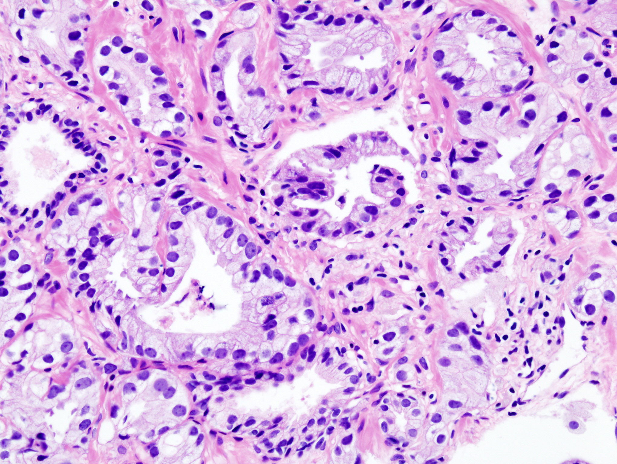 Histopathologic image of acinar type adenocarcinoma obtained by core needle prostate biopsy. Photographed by CCD camera through Olympus microscope, then modified by auto-contrast function in Adobe software.